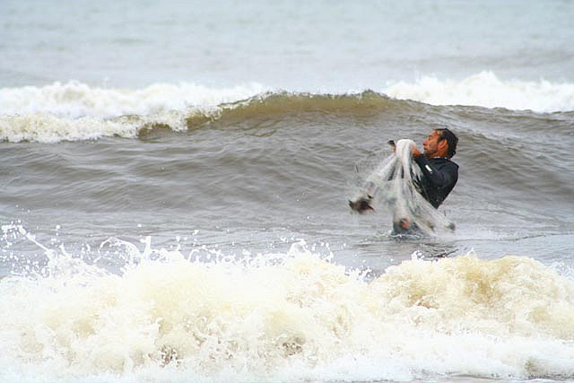 Fisherman in Matinhos, Paraná, Brazil.